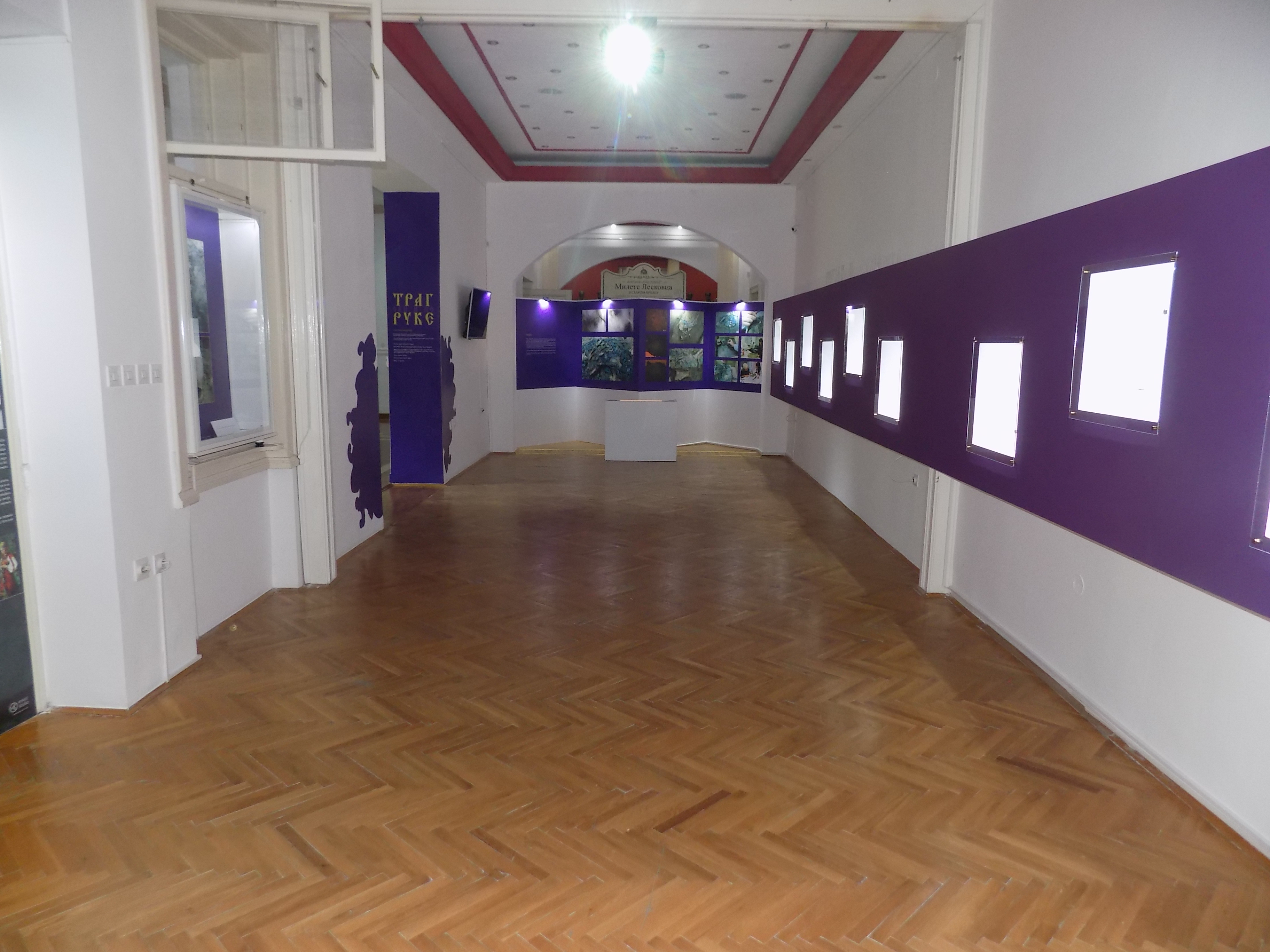 Exhibition space for thematic exhibitions